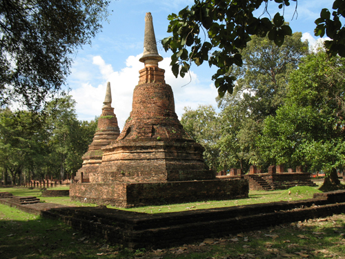 Wat Phra That, Kamphaeng Phet Province.